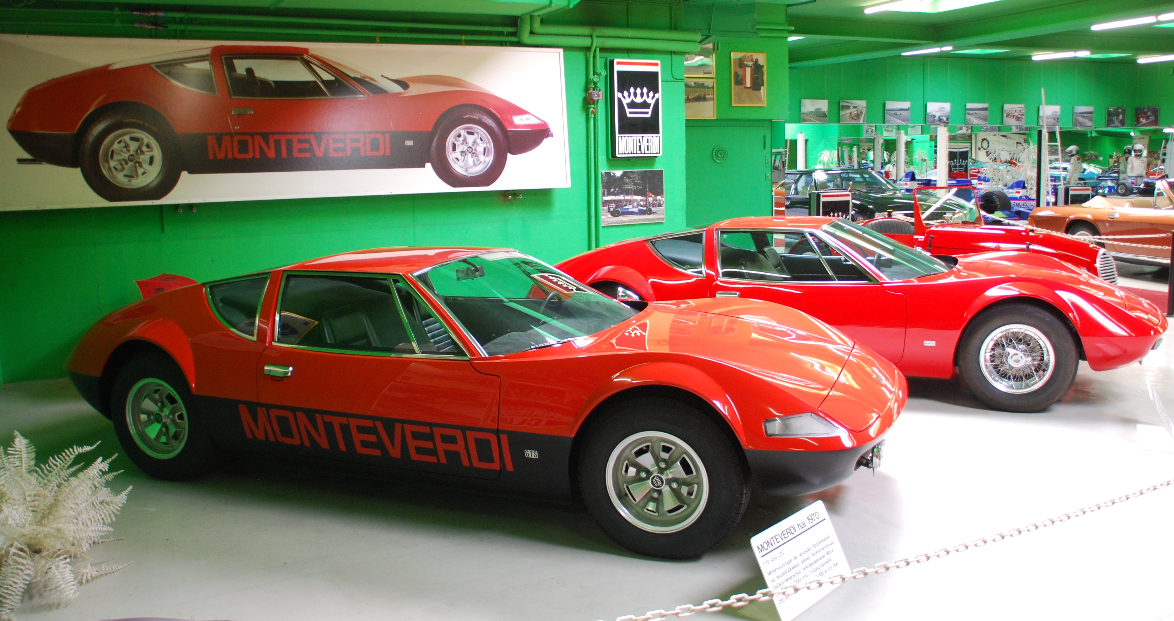 Monteverdi Hai 450 SS and 450 GTS (replicas) at the Monteverdi Museum, Basel, Switzerland.